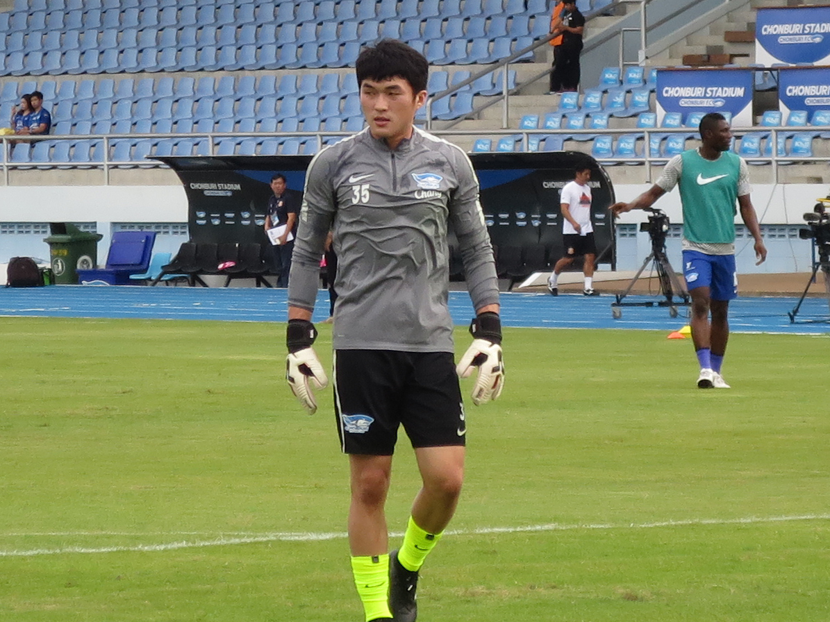 Chanin Sae-ear (2017)